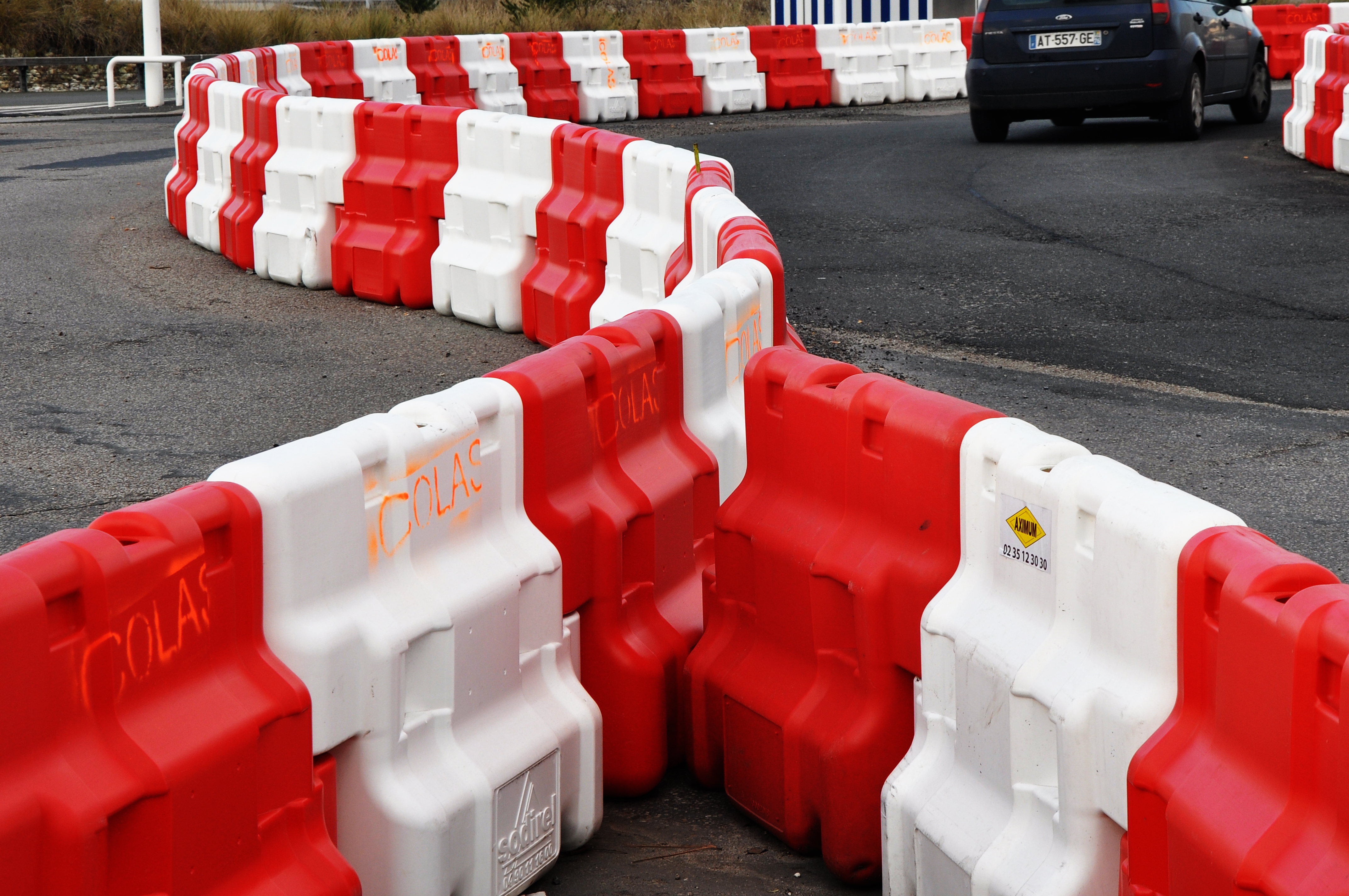 Chicane, France